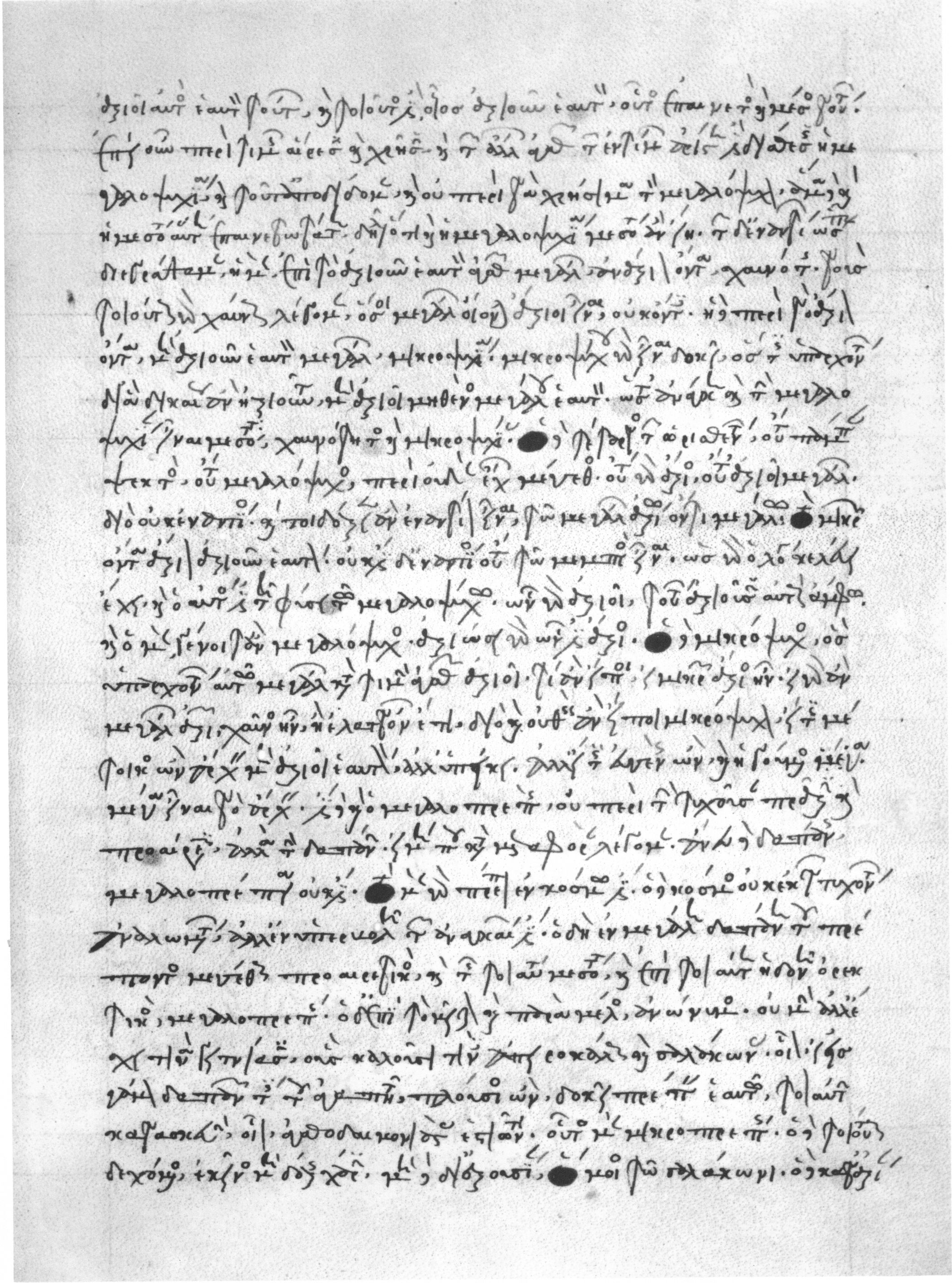 Aristotle, Eudemian Ethics, in Cambridge, University Library, MS. Ii.5.44, fol. 120r.